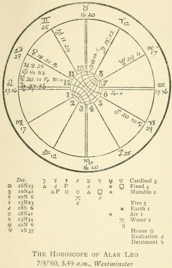 Published in 1919